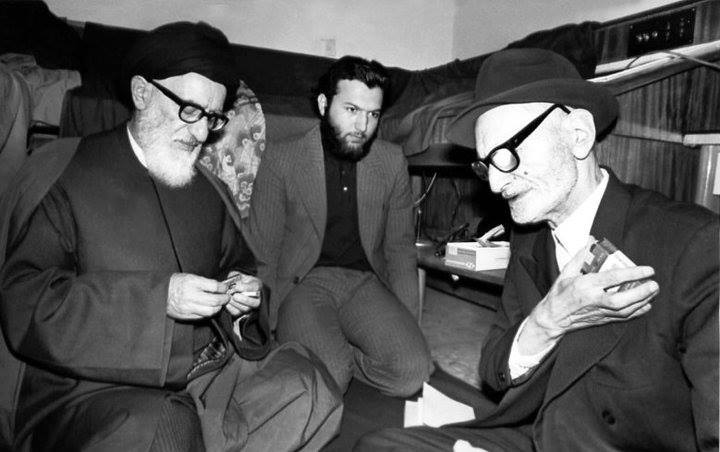 Mahmoud Taleghani, Ehsan Shariati and Mohammad Taghi-Shariati (left to right)